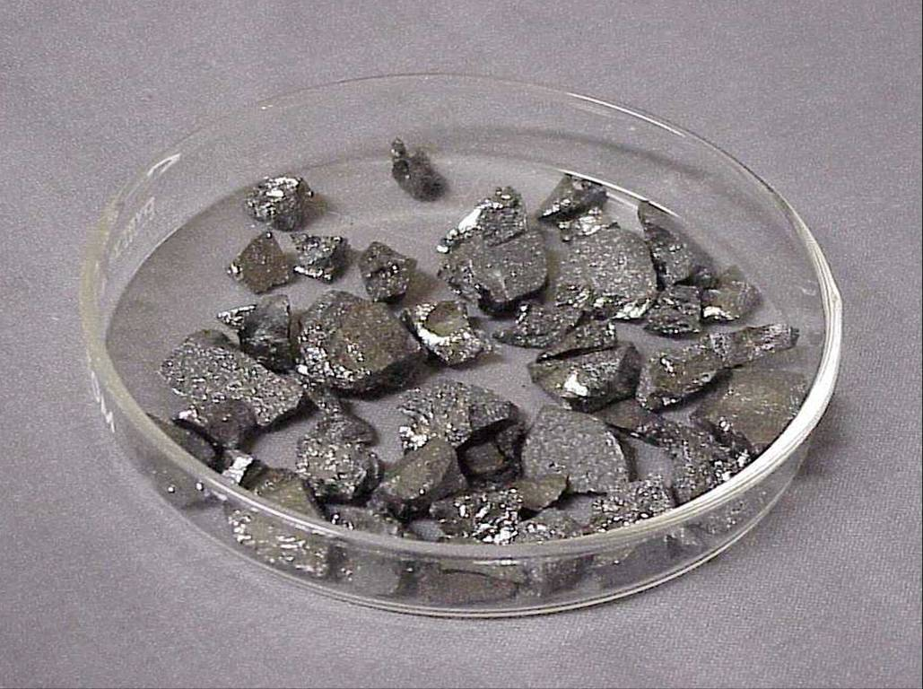 Polycrystalline chunks of rhombohedral β-boron, net 25.5 grams